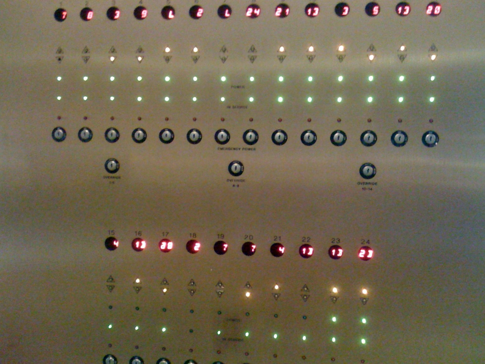 Elevator monitoring panel in Hilton Chicago